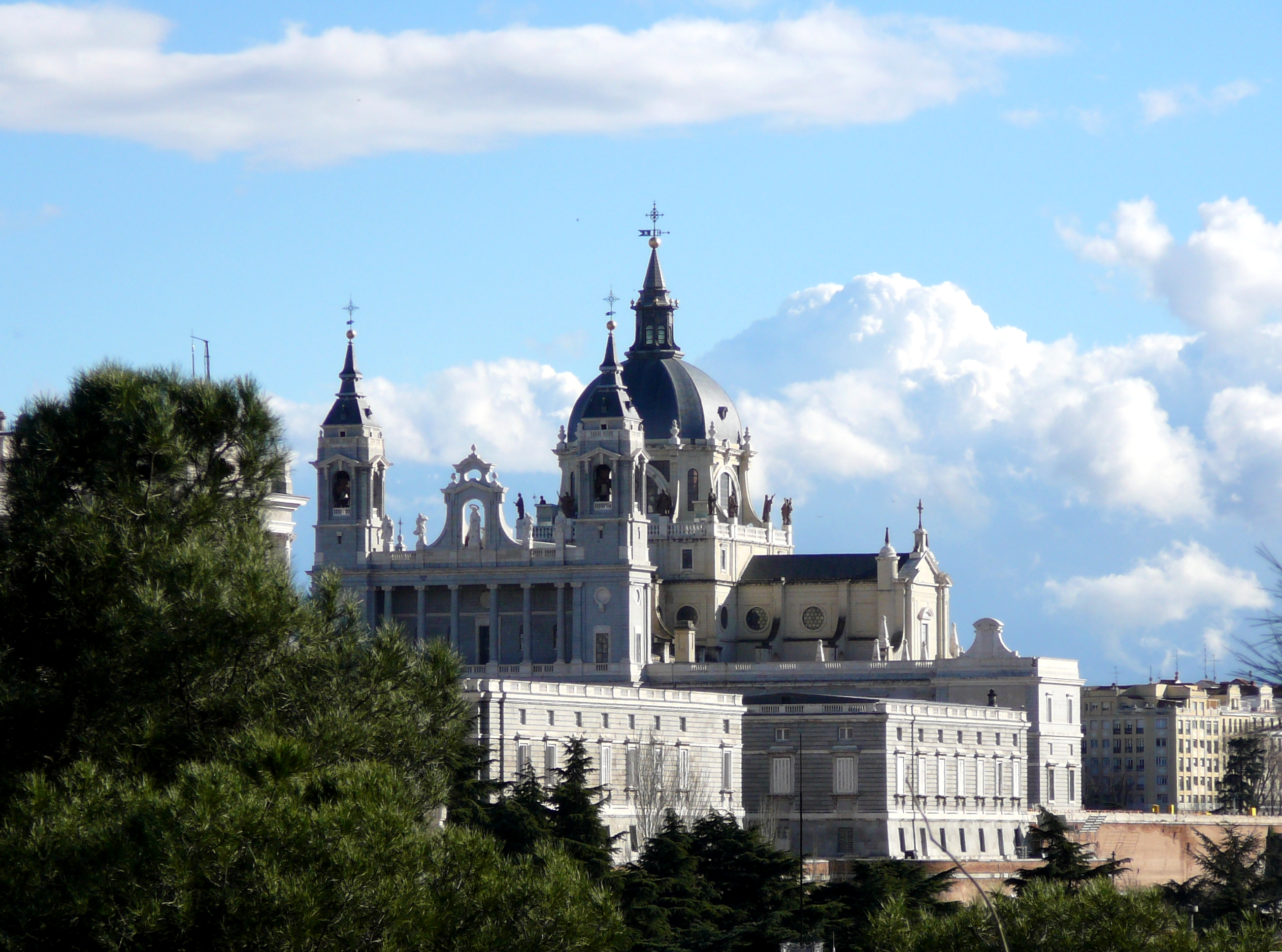 Almudena Cathedral, in Madrid (Spain).